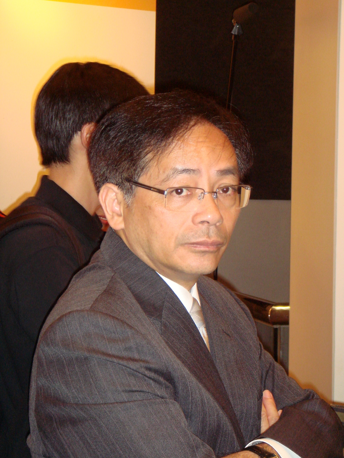 Democratic Alliance for the Betterment and Progress of Hong Kong (DAB) vice-chairman Ip Kwok Him